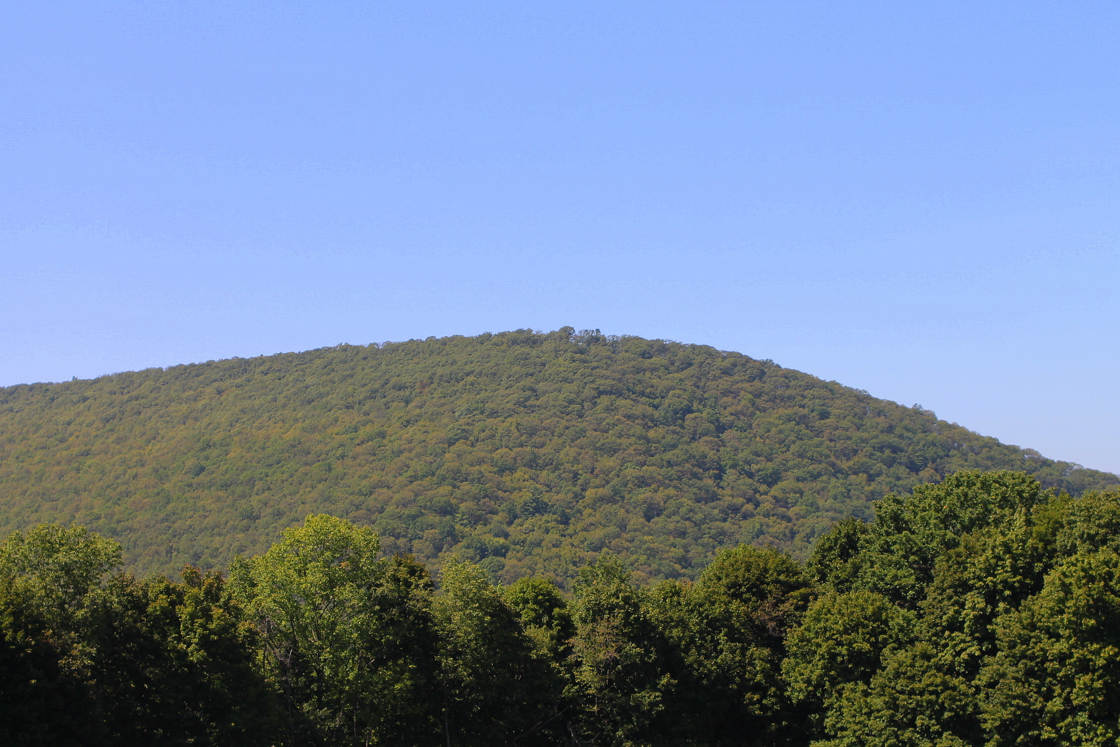 Ridge in Northumberland County, Pennsylvania, near Shamokin. Possibly Little Mountain.